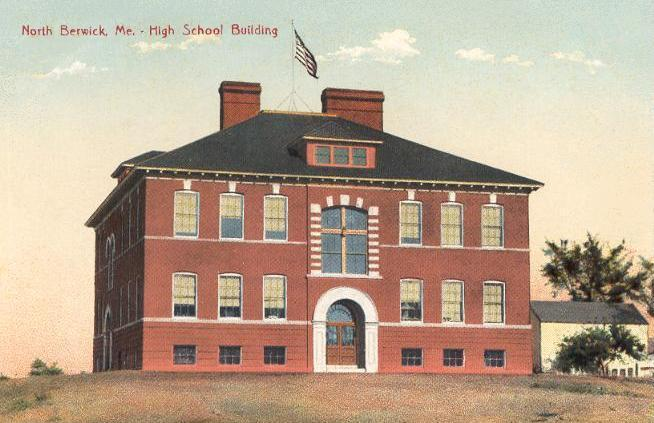 Old High School Building, North Berwick, Maine. Built in 1904, it now contains the town offices.